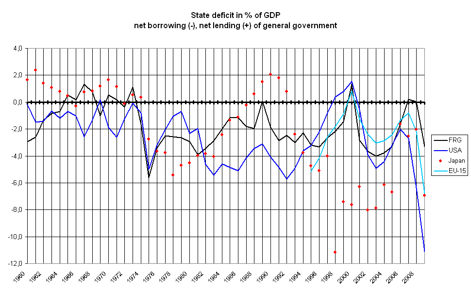 Net lending (+) or net borrowing (-) of general government, USA, Japan, FRG